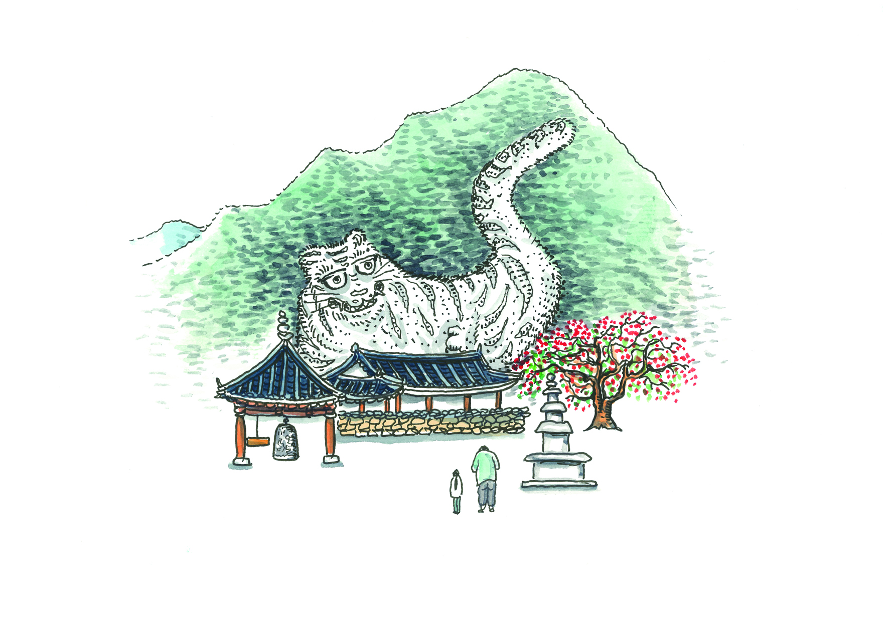 Banya temple in South Korea